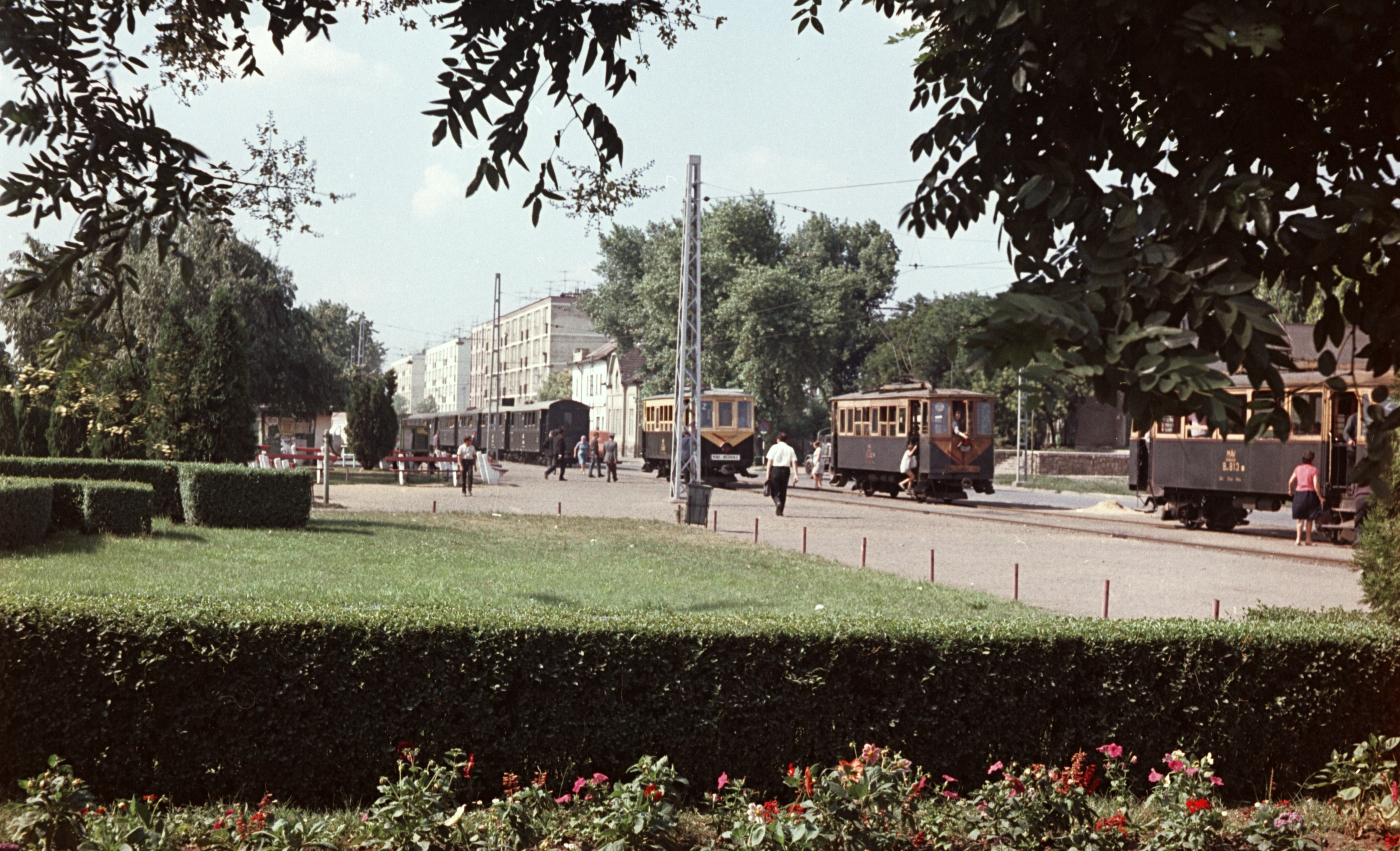 Location: Hungary, Nyíregyháza Tags: tram, train station, colorful, narrow-gauge railway